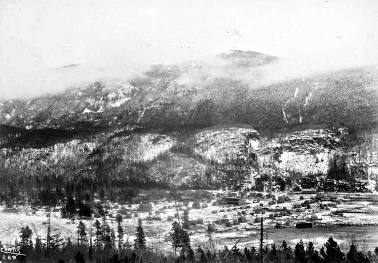 Bird's-eye view of Skagway